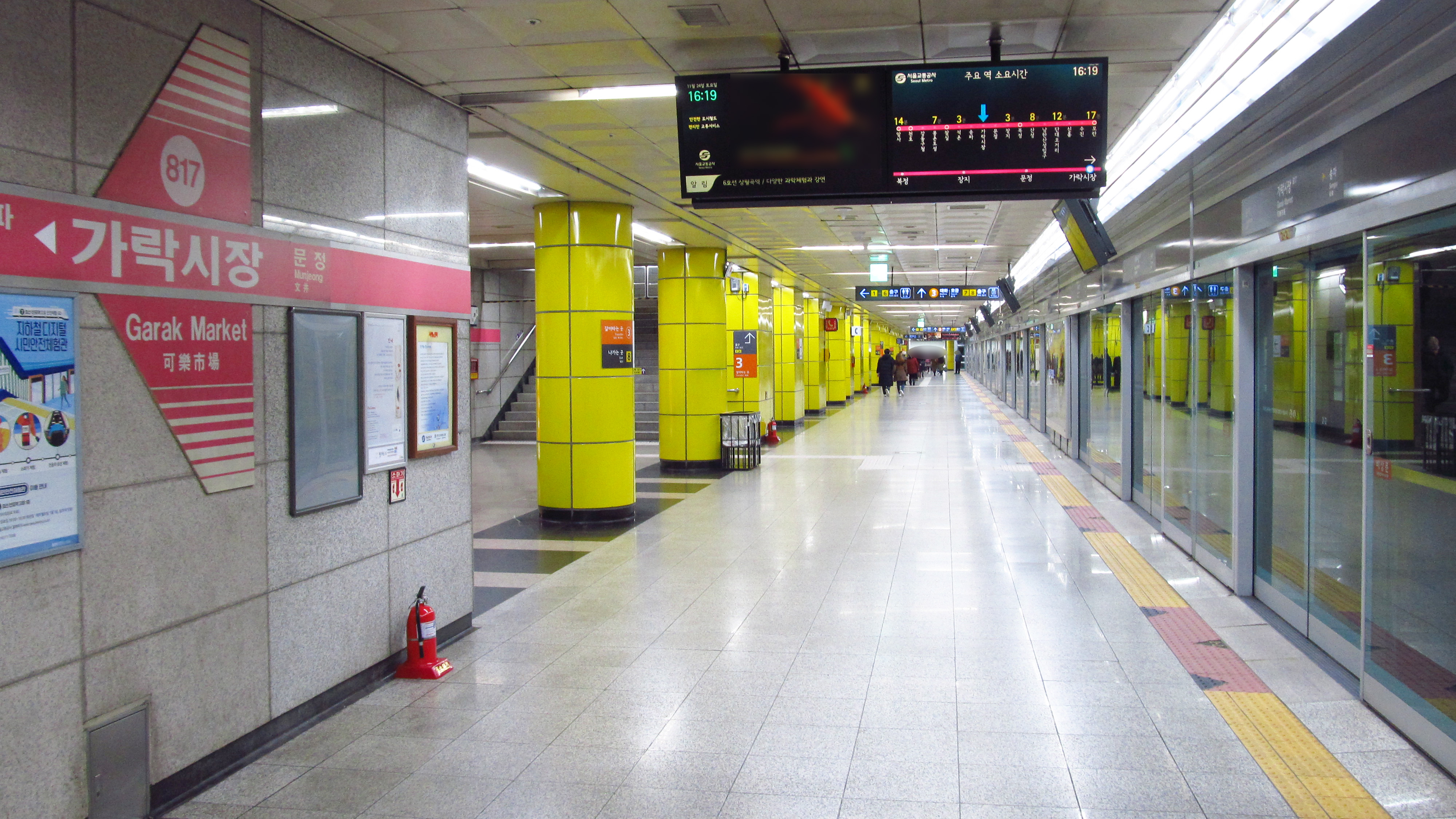 The platform at Garak Market Station on Seoul Subway Line 8 in Songpa-gu, Seoul, Republic of Korea(South Korea)